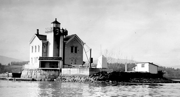 Saugerties Lighthouse on the Hudson River